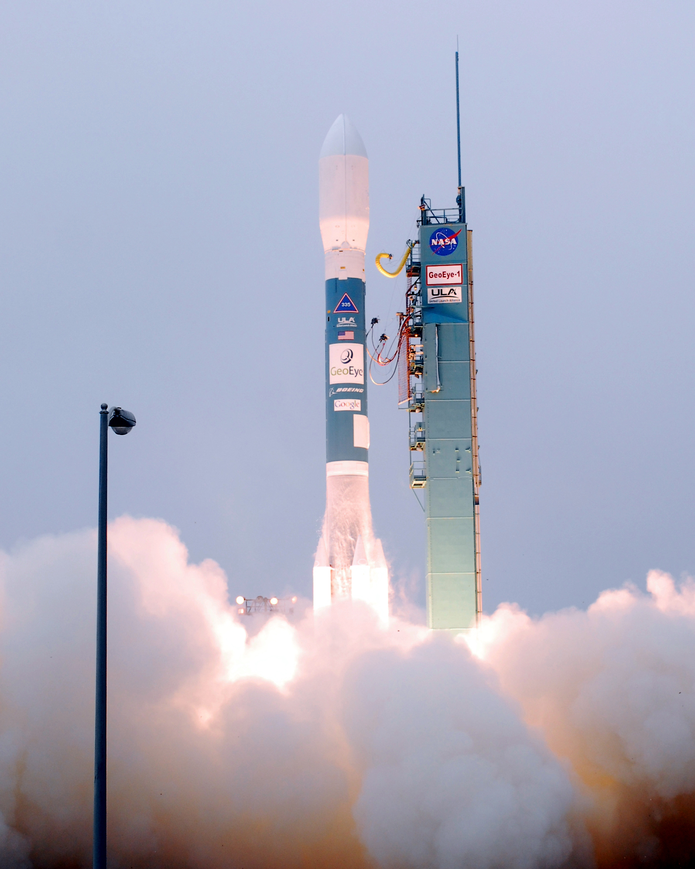 Vandenberg AFB successfully launched a Delta II rocket from Space Launch Complex-2 at 11:51 a.m. on Sept. 6. The rocket carried the GeoEye-1 Satellite into a circular Sun-synchronous orbit where the satellite will begin its mission of collecting multispectral or color images of the Earth for both government and commercial organizations.